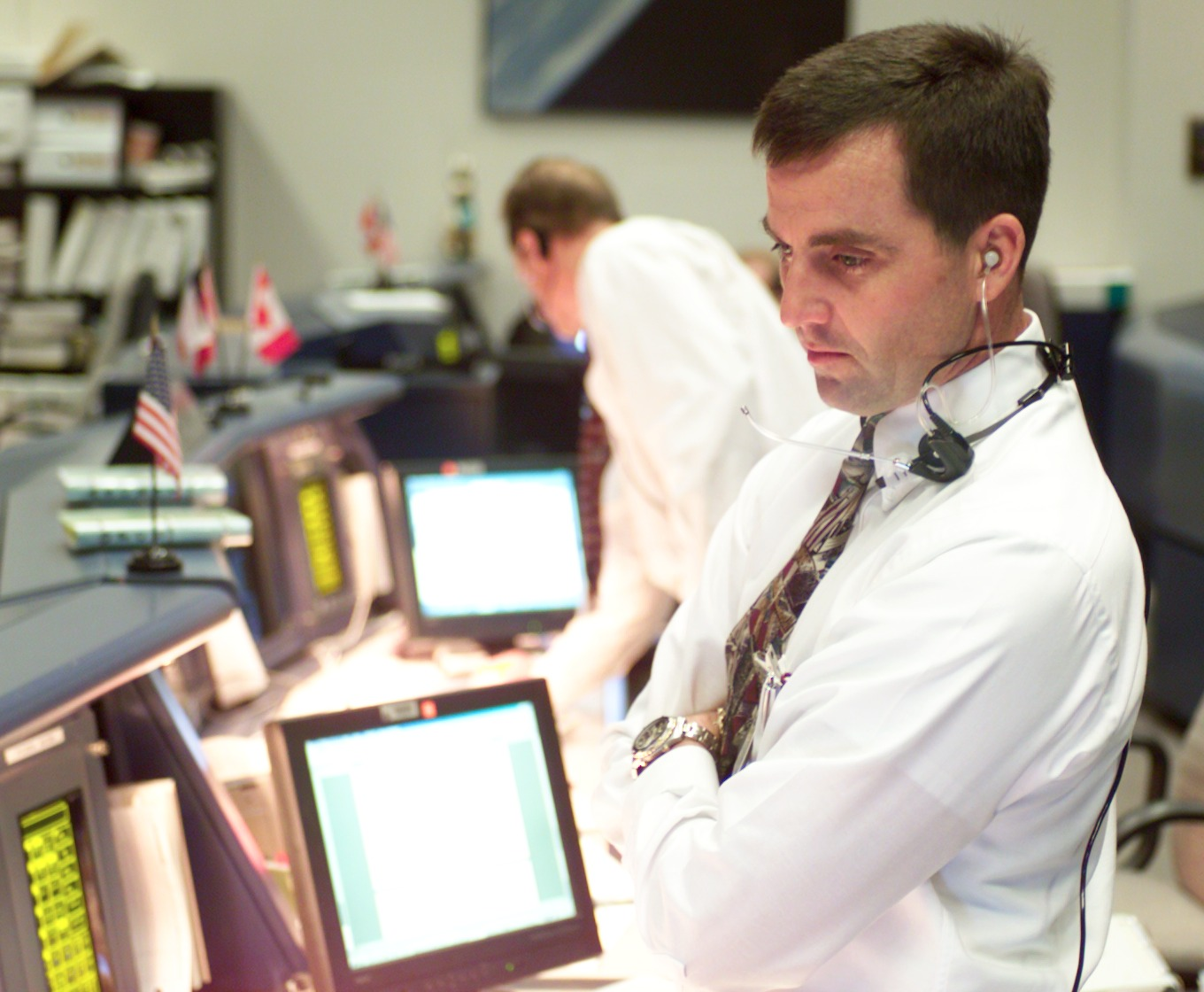 Paul Hill, NASA flight director. Flight director Paul Hill monitors data at his console in the shuttle flight control room (WFCR) in Houston’s Mission Control Center (MCC). At the time this photo was taken the Space Shuttle Endeavour was about to dock with the International Space Station (ISS) 240 miles over the South Pacific. The docking occurred at 11:25 a.m. (CDT) on June 7, 2002.